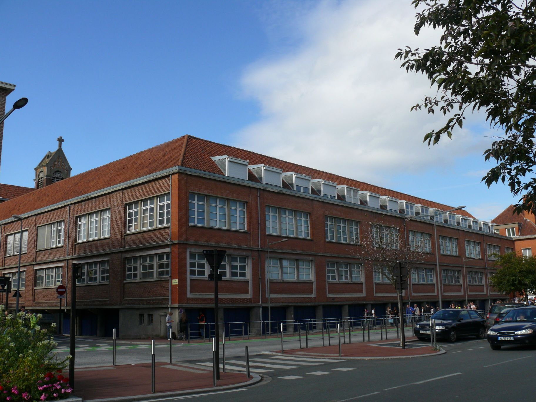 Saint-John's institute in Douai (Nord, France).